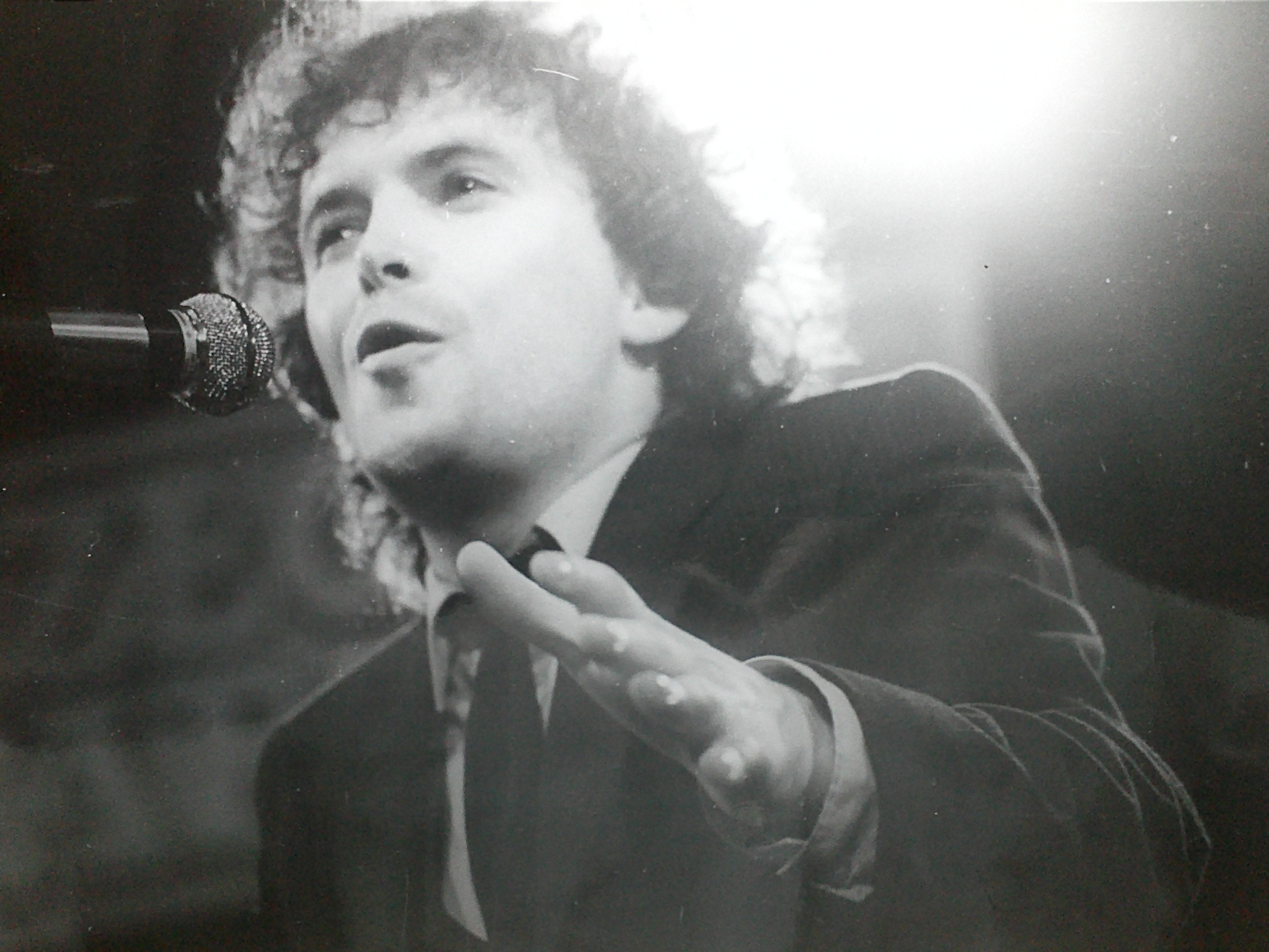 Janusz Cedro podczas koncertu Spirituals Singers Band